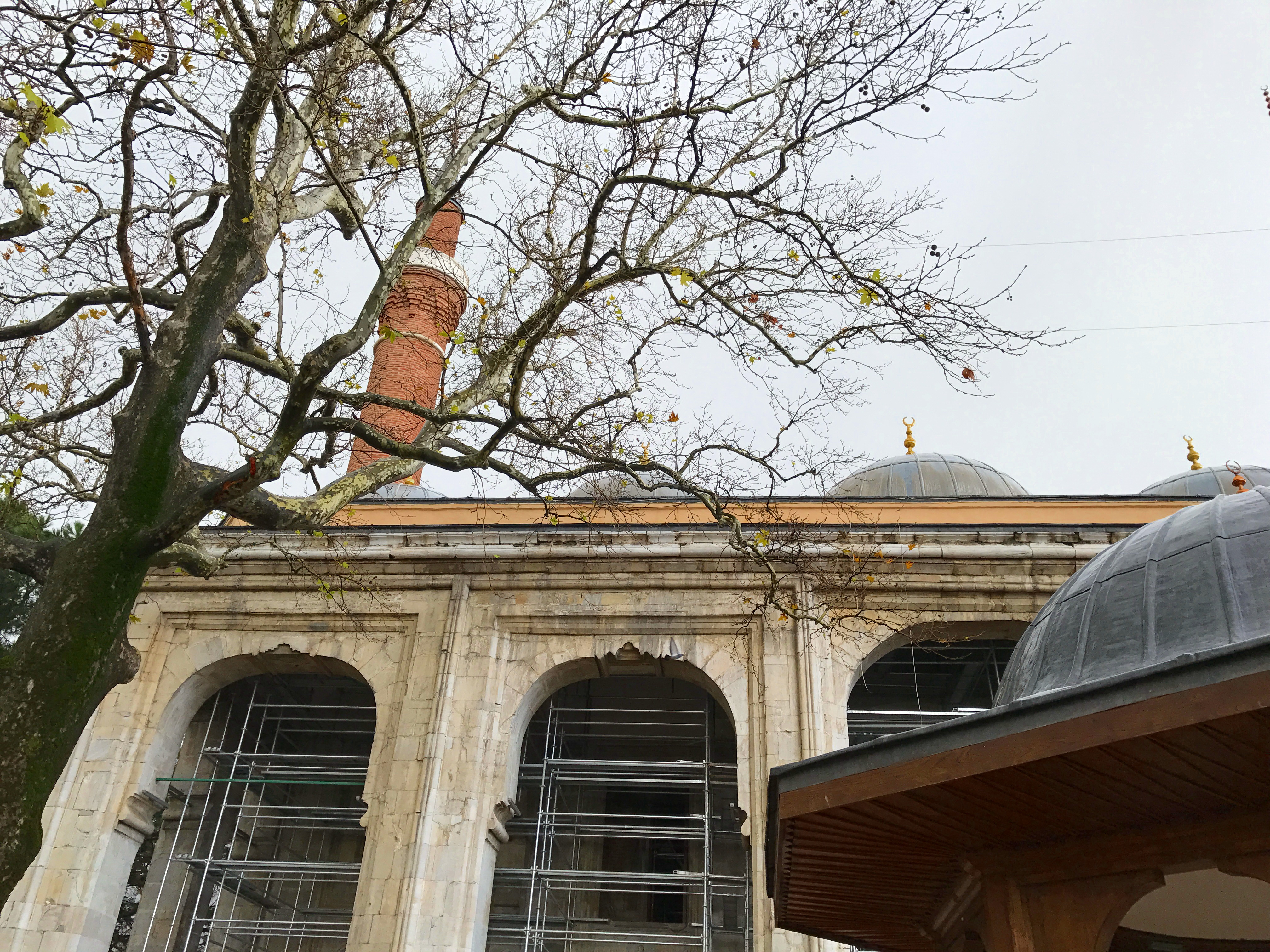 Bayezid I Mosque is a historic mosque in Bursa, Turkey, that is part of the large complex (külliye) built by the Ottoman Sultan Bayezid I (Yıldırım Bayezid – Bayezid the Thunderbolt) between 1391–1395. This picture was taken during 2017's renovations.